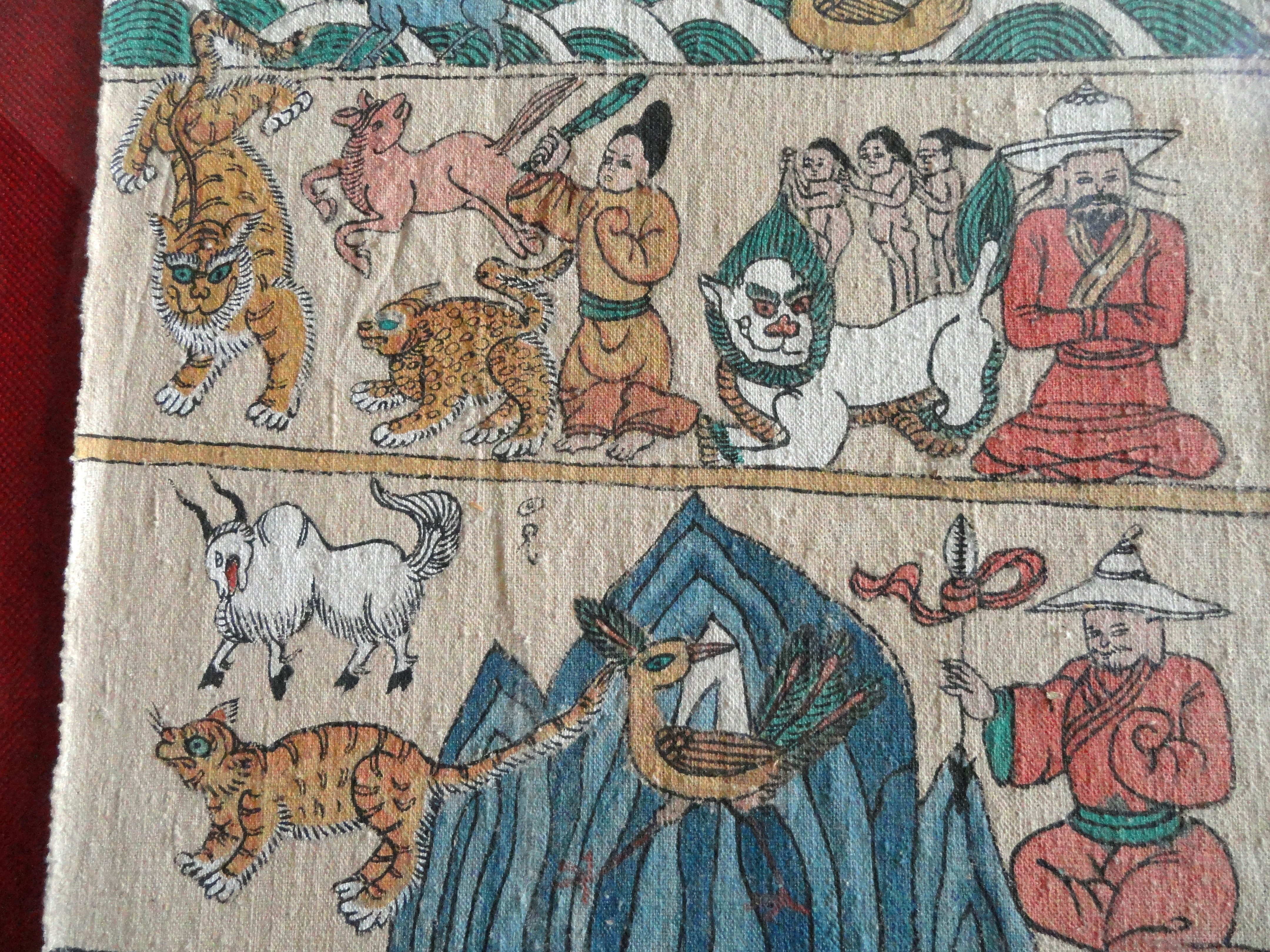 Naxi sacred diagram in the Yunnan Nationalities MuseumFolk Arts in the Yunnan Nationalities Museum, Kunming, Yunnan, China.